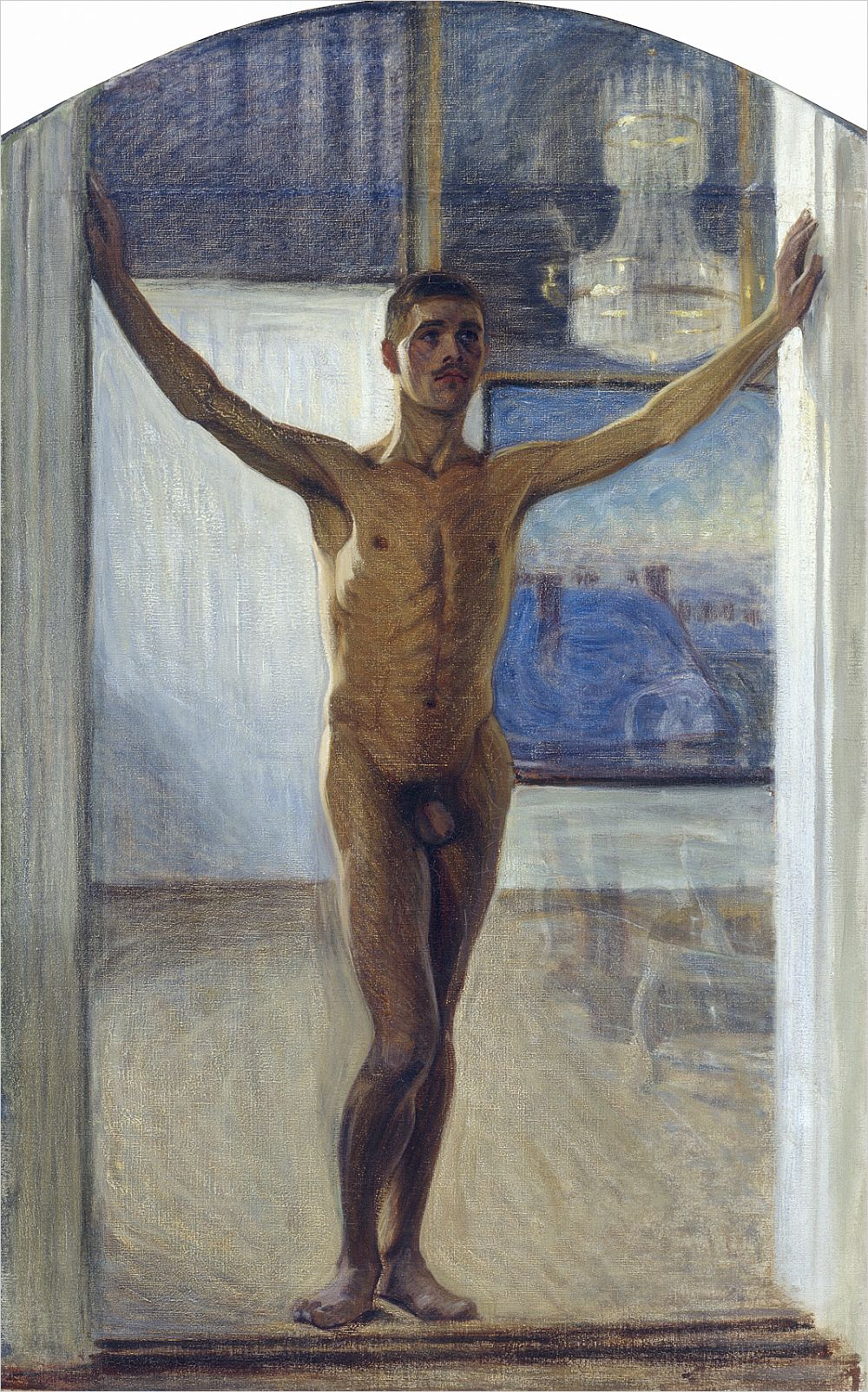 Depicted person: Knut Nyman